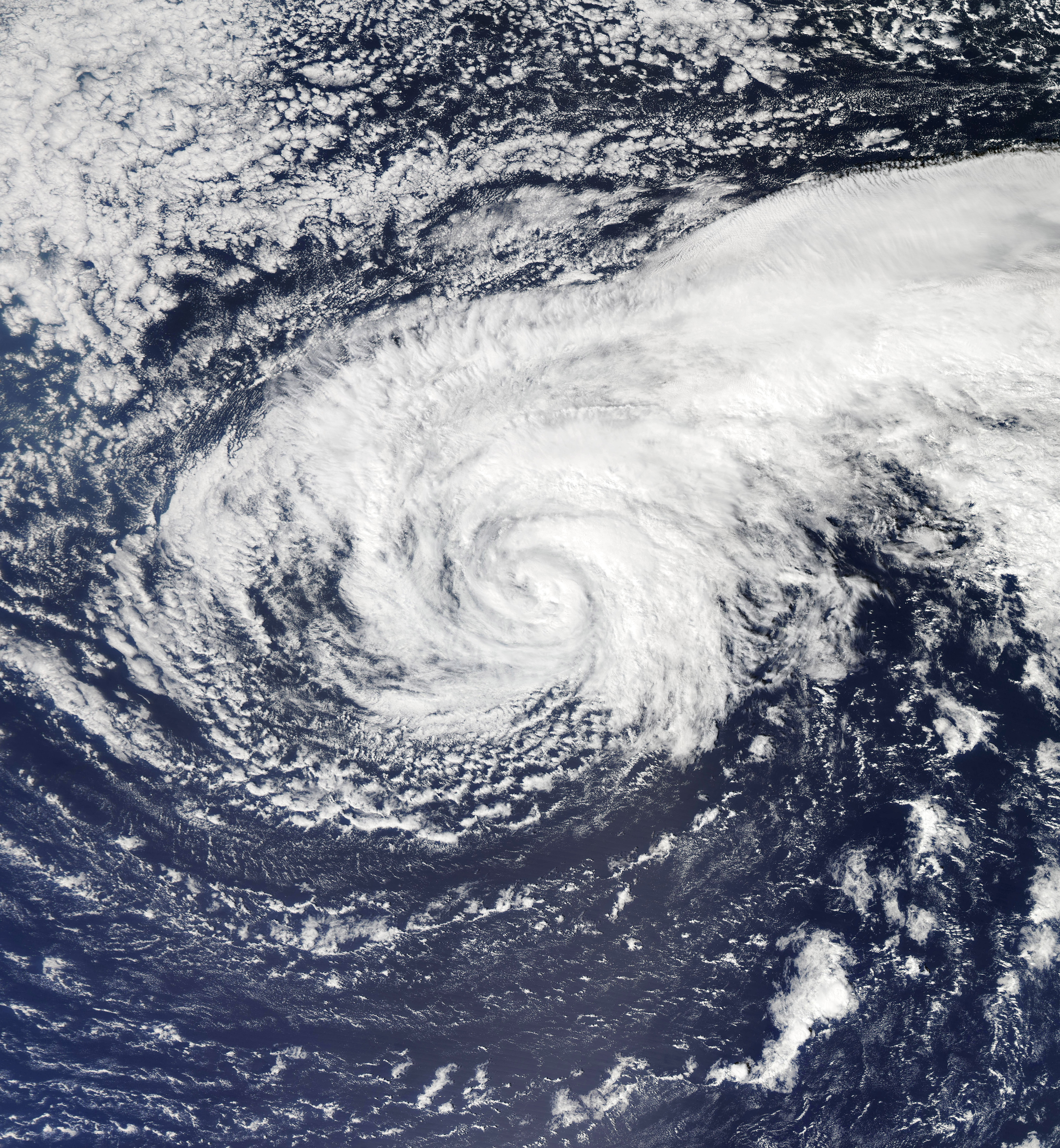 Tropical Storm Nadine on September 20, 2012